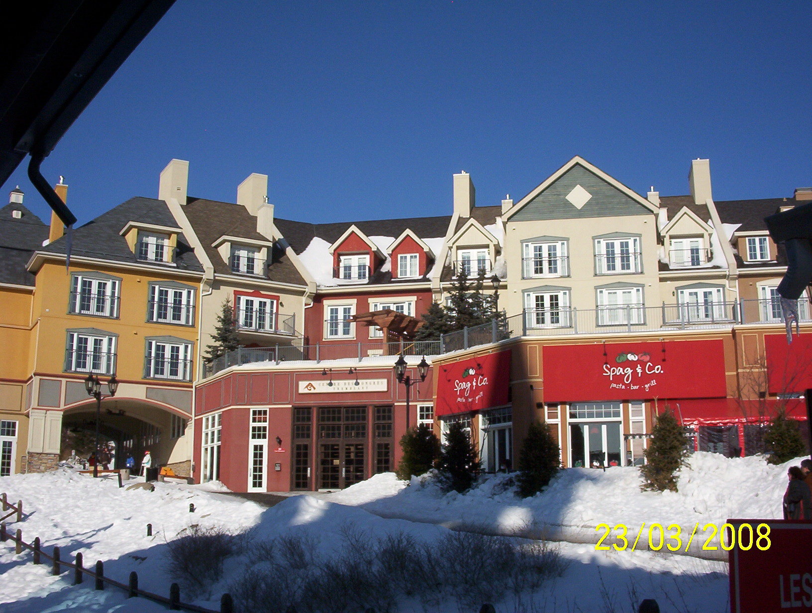 Photographer is Me